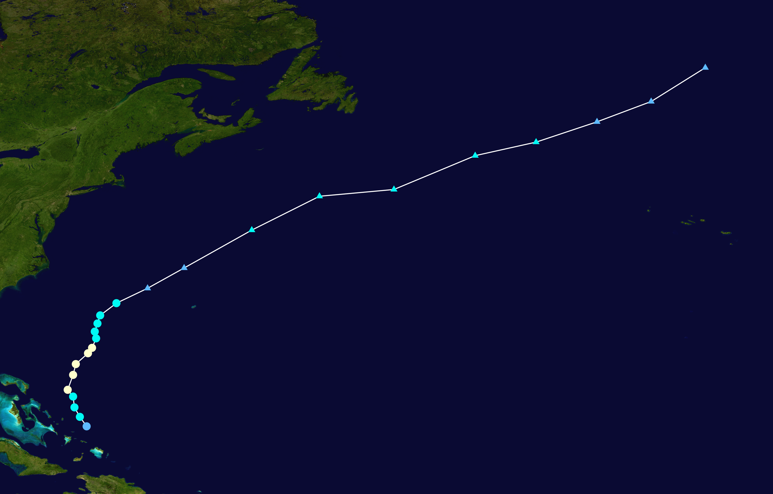 Hurricane Kendra (1978) track. Uses the color scheme from the Saffir-Simpson Hurricane Scale.